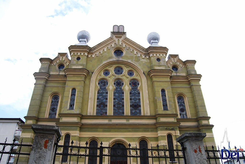 The Synagogue in Dej, Romania.